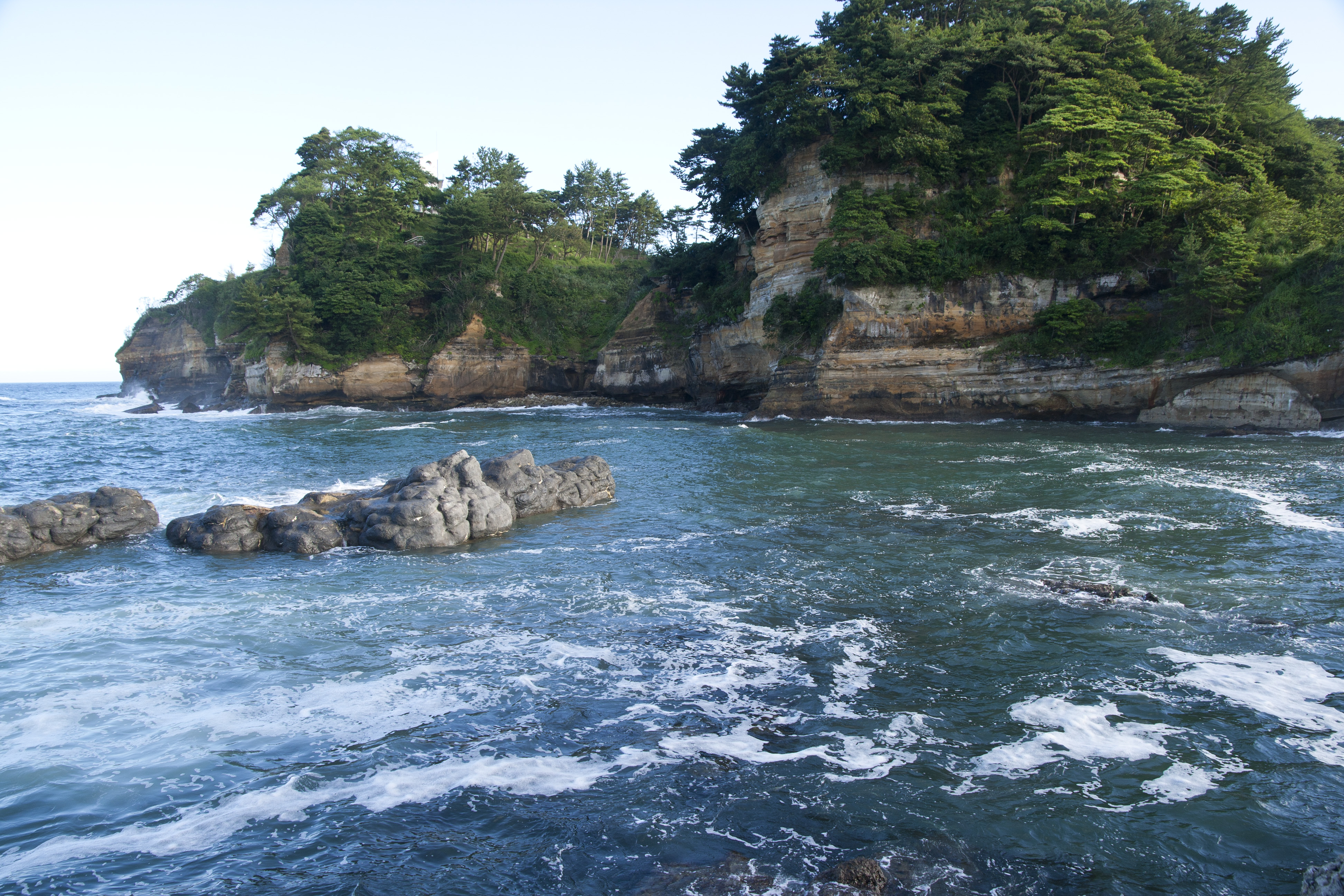 Izura Beach, Kita-Ibaraki City, Ibaraki Prefecture, Japan.